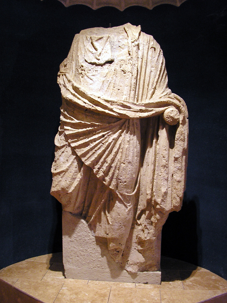 Aquincum Museum, Budapest. The statue of emperor, permanent exhibition.